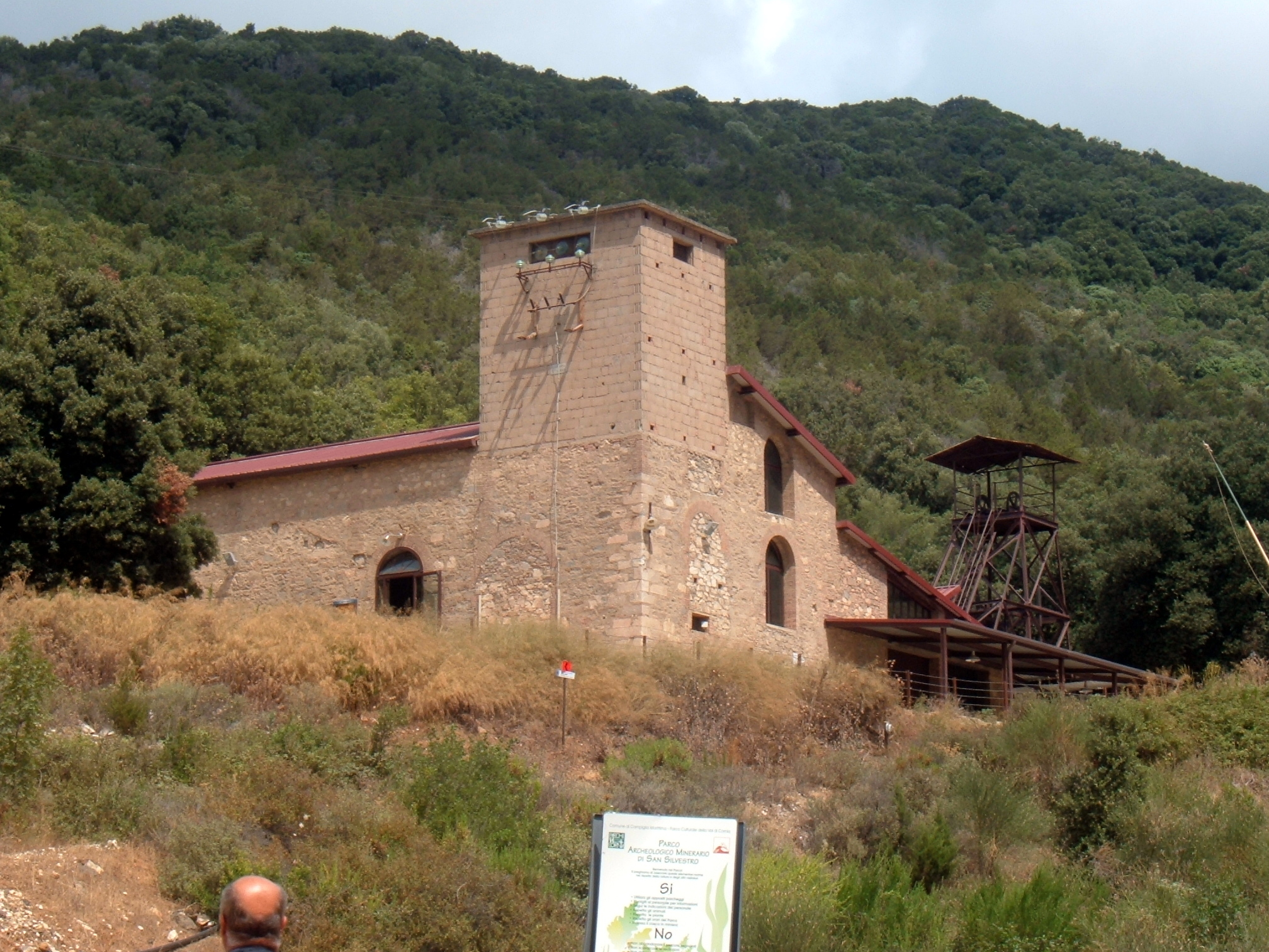 Parco minerario di San Silvestro, located in Campiglia Marittima, Tuscany, Italy